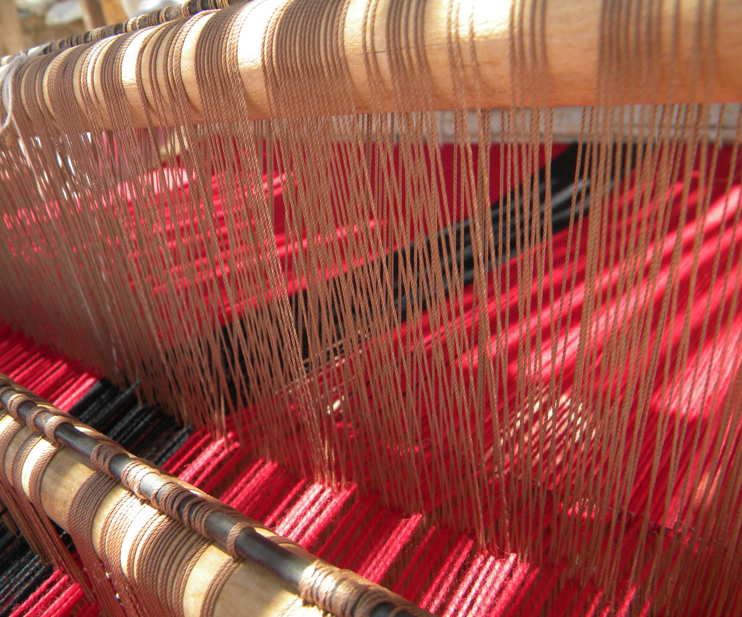 Telar artesanal en la provincia de Salta - Argentina